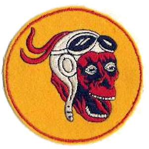 Emblem of the 367th Bombardment Squadron (World War II)